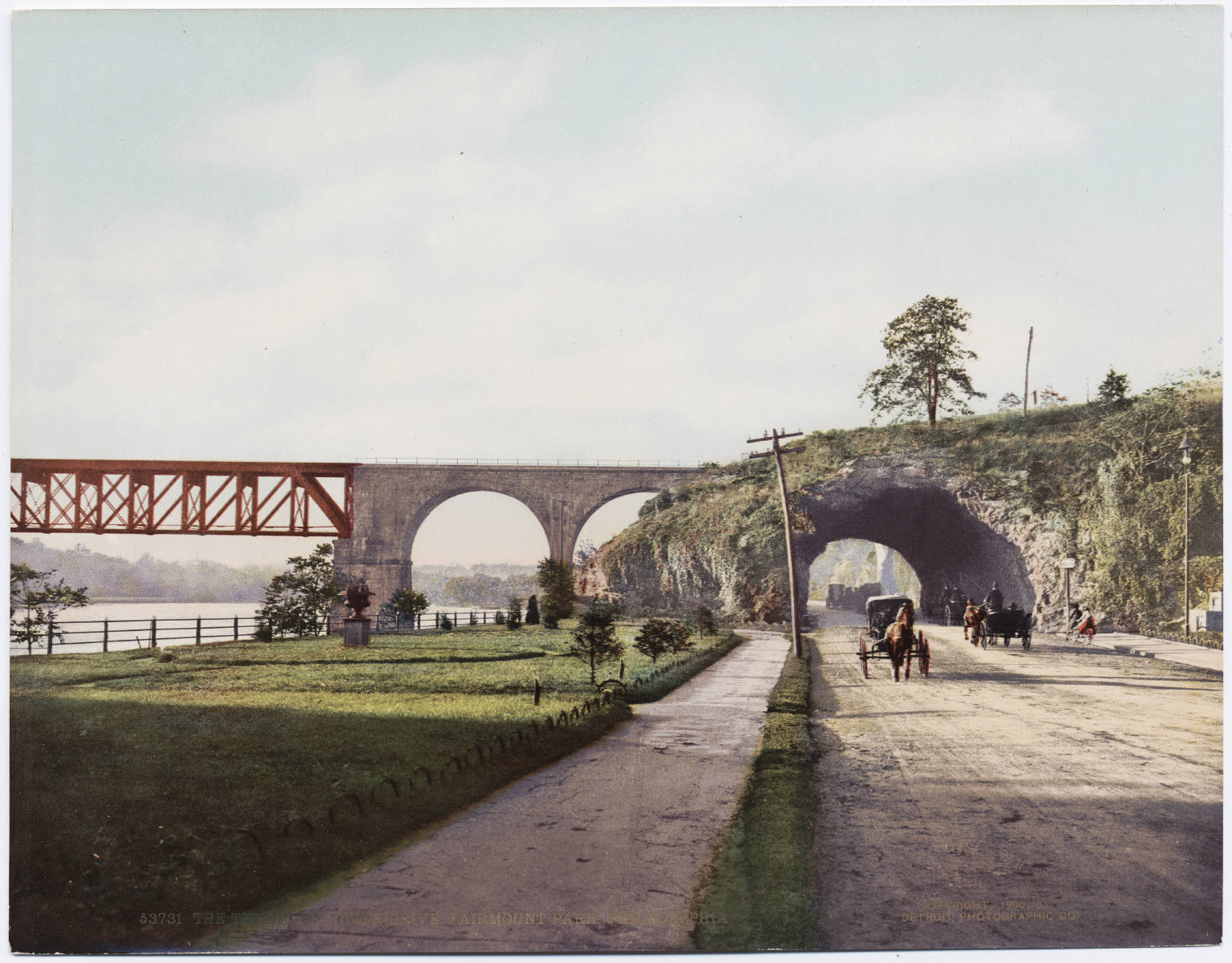 A photochrom postcard published by the Detroit Photographic Company.